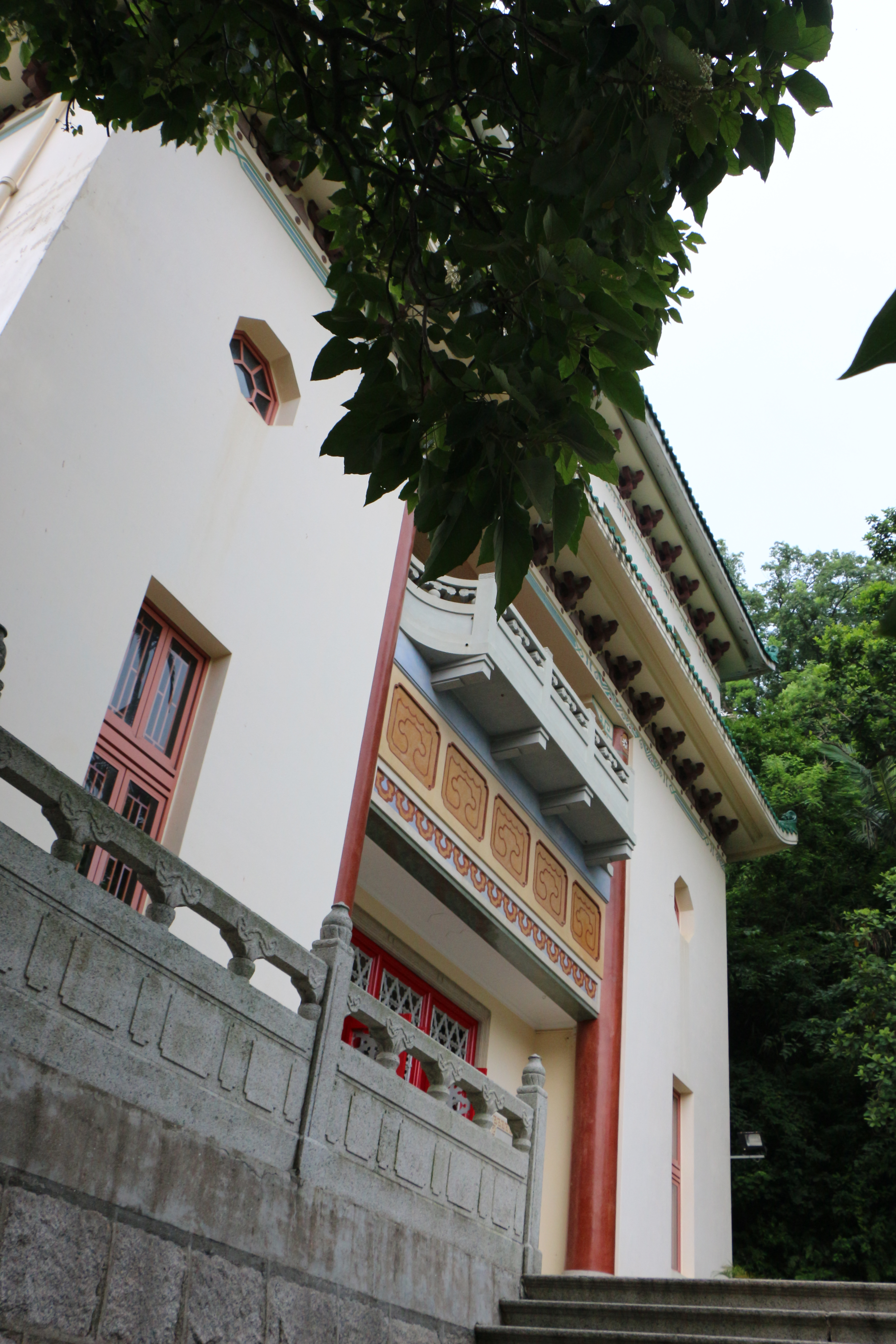 Confucius Hall, 2014